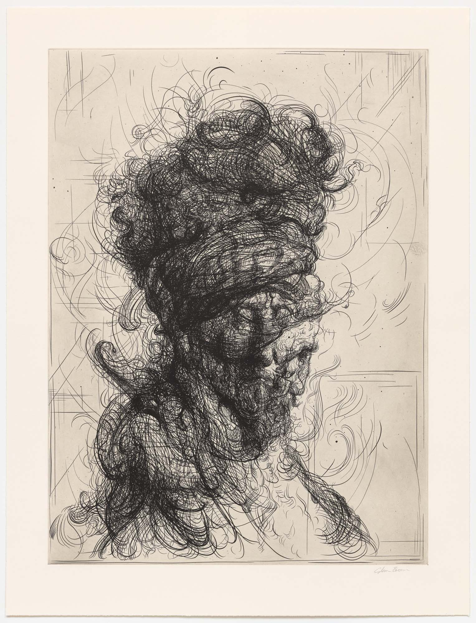 'Half-Life (after Rembrandt) 1' (2016) Etching on paper, Velin Arches 400 gsm 76 x 56 cm (29 7/8 x 22 1/8 in) image; 89 x 68 cm (35 x 26 3/4 in)